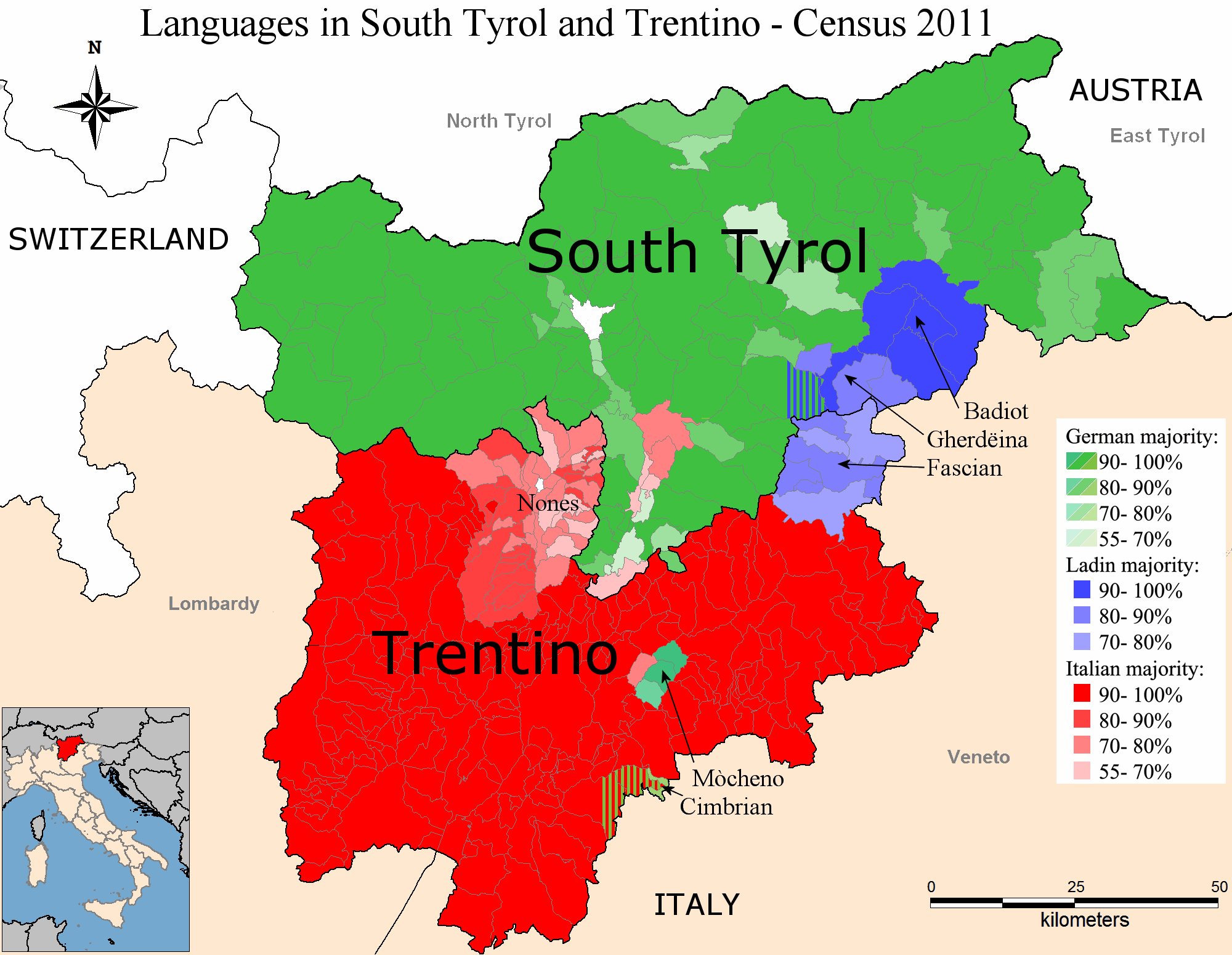 Map of South Tyrol and Trentino with Language distribution based on Census data from 2011. Please note that the method of gathering statistical data on the population in the two provinces was different and the data aren't directly comparable. Colours: green: majority German bottle green: Mocheno lime green: Cimbrian blue: majority Ladin red: majority Italian white: all language groups below 55%